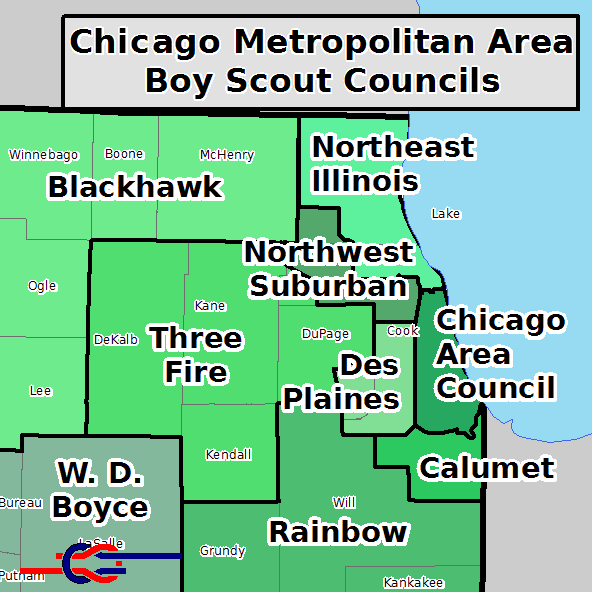 Illinois BSA Councils - Map created using boundary information publicized by the relevant BSA councils. US Census TIGER data used for county and state lines. Council divisions are exact where they coincide with county lines and approximate in other areas. All councils on this map are in the central region.